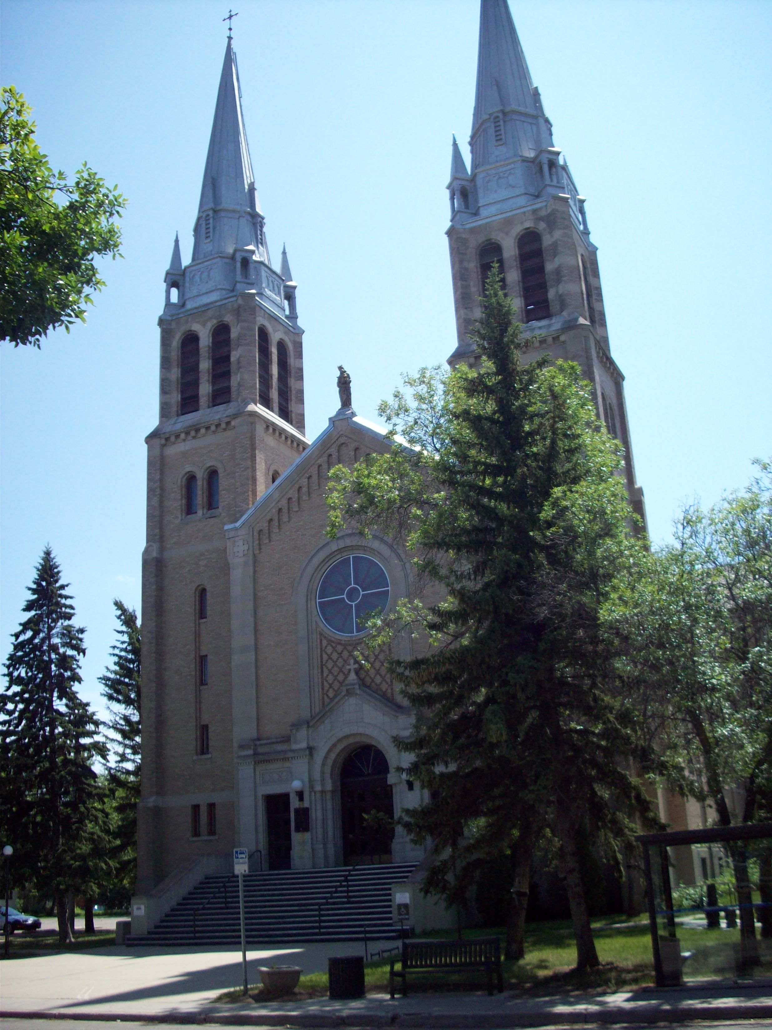 Holy Rosary, 2008